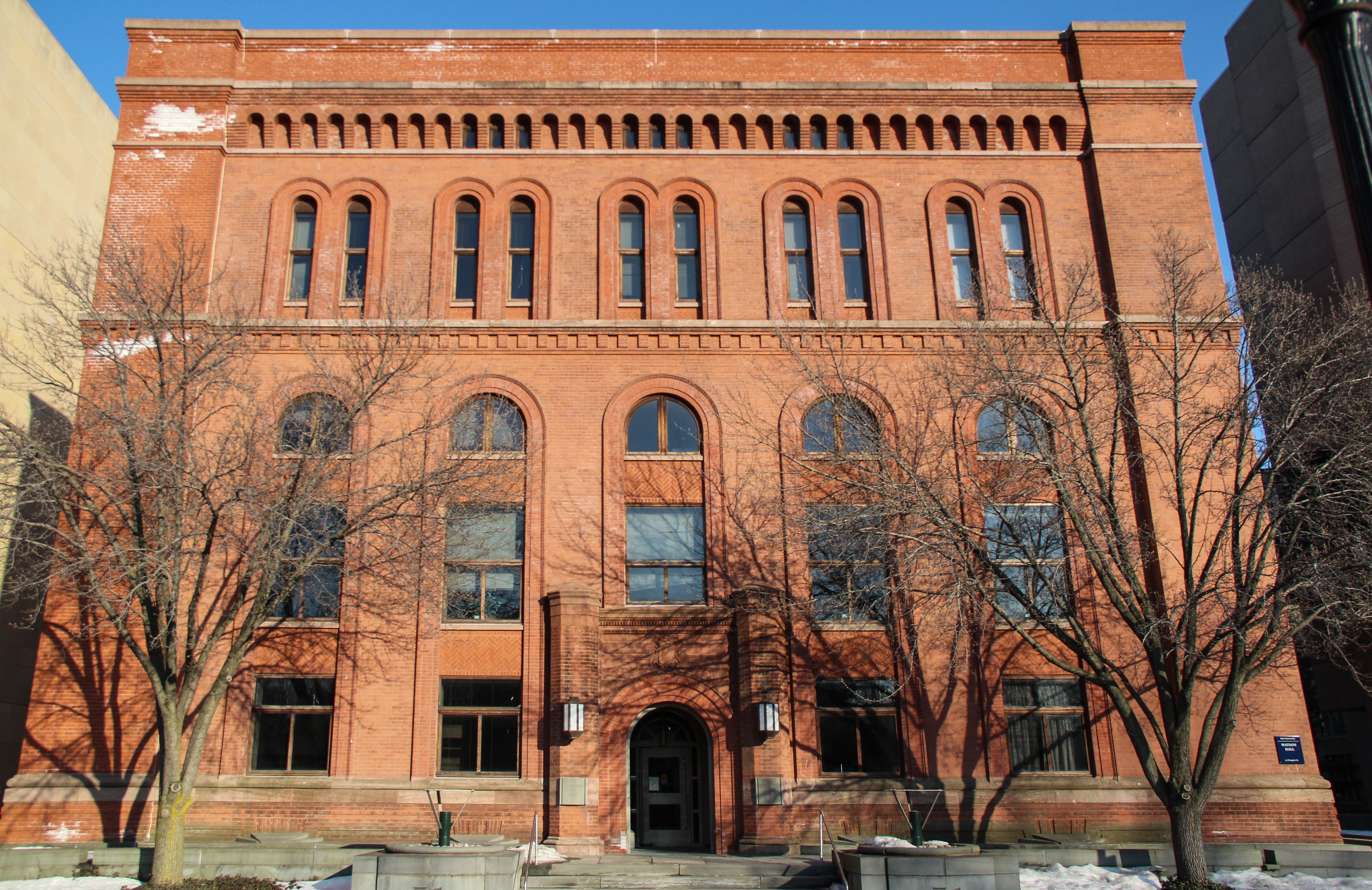 A.K. Watson Hall, main building of the Department of Computer Science, Yale University, New Haven, CT